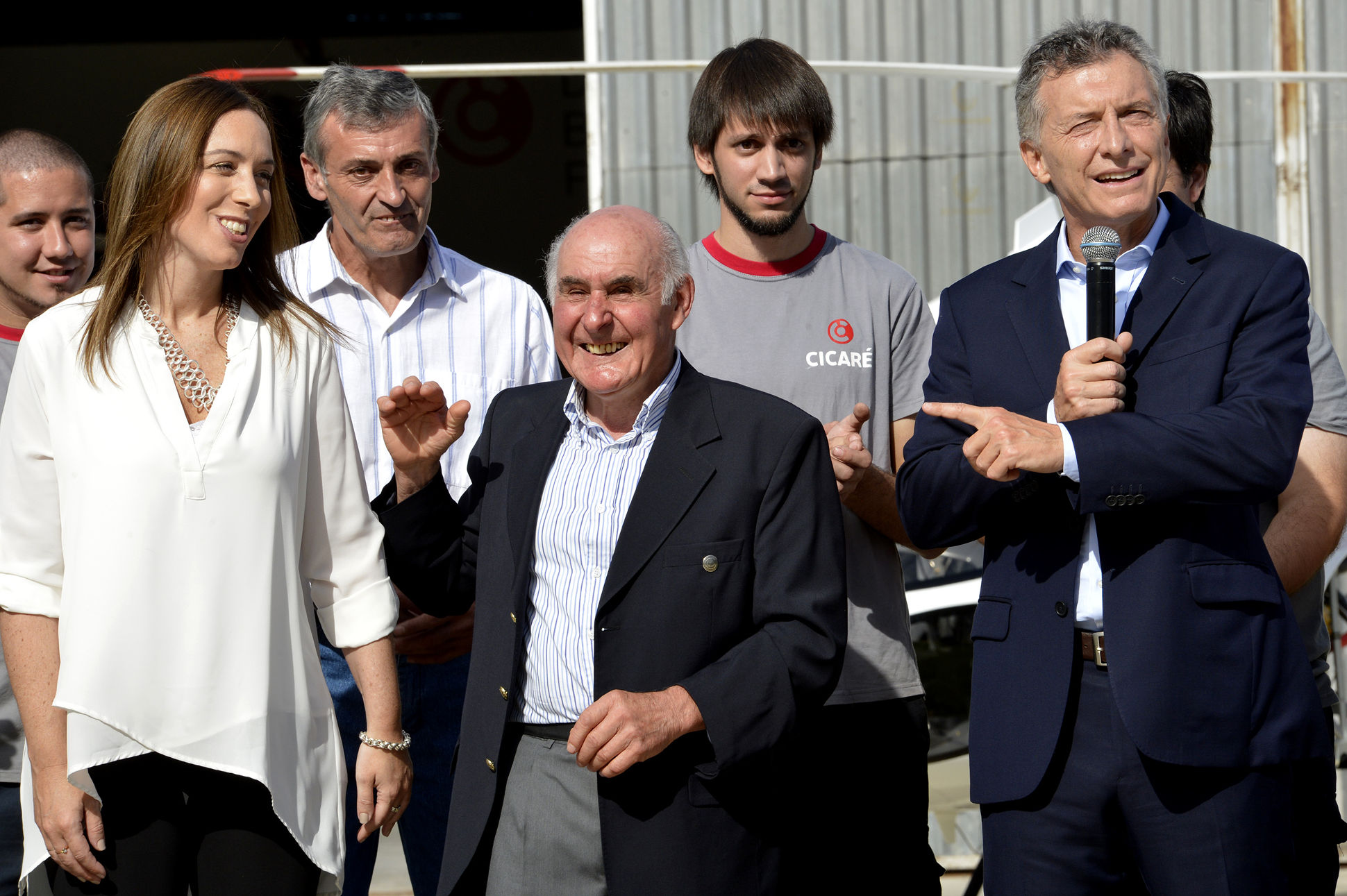 Argentina's president Mauricio Macri and Governor of Buenos Aires Maria Eugenia Vidal alongside Augusto Cicaré in his factory of helicopters